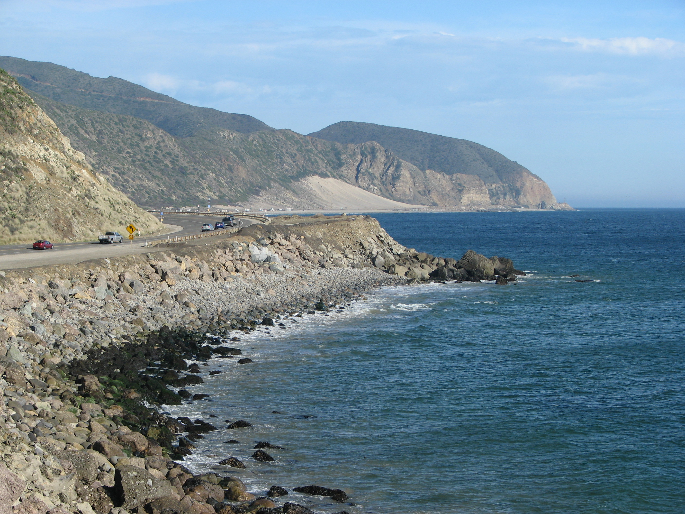 California State Route 1—Pacific Coast Highway — view towards Point Mugu State Park near Point Mugu, at the Santa Monica Mountains coast. Located in southeastern Ventura County, Southern California.